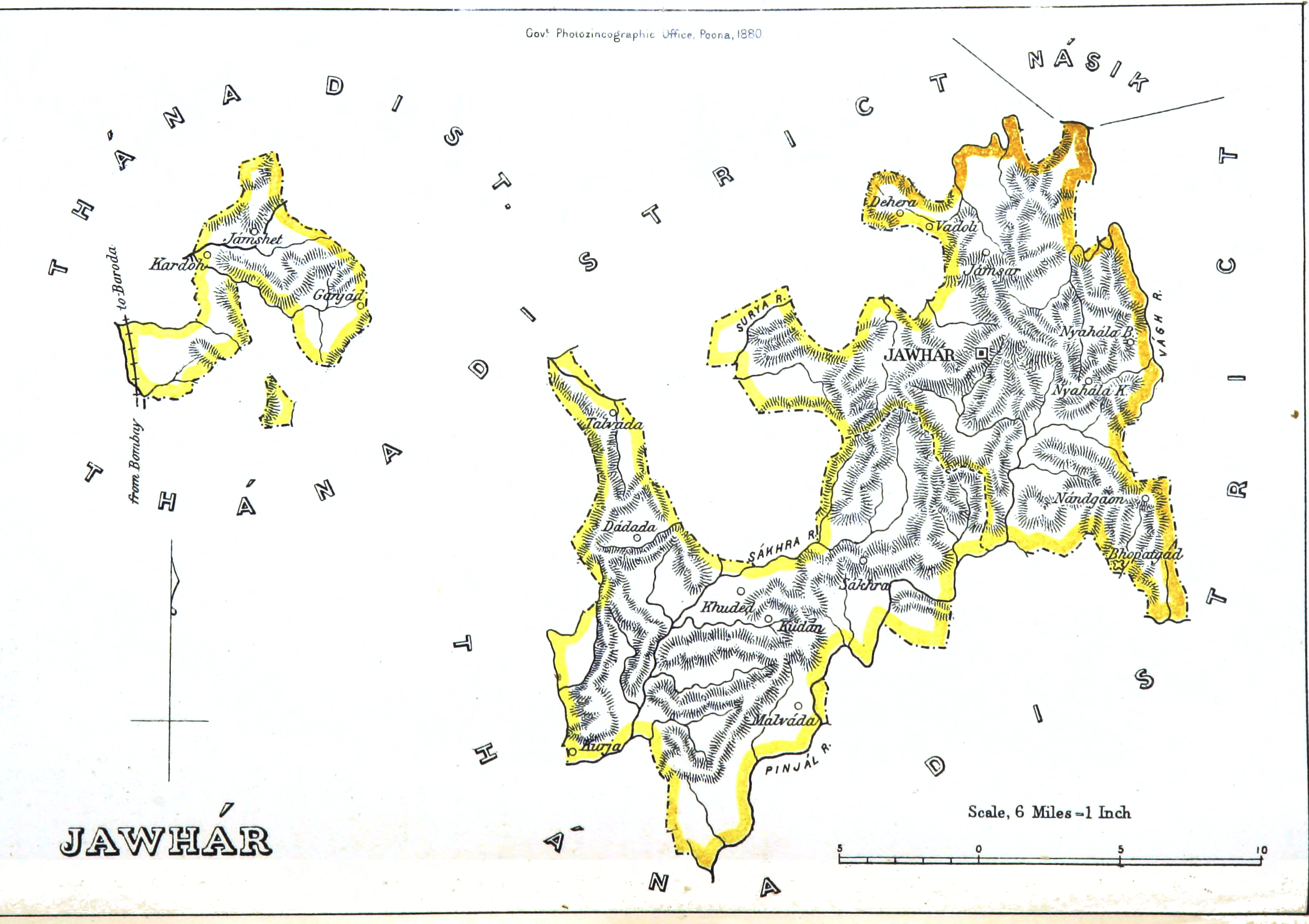 Map of Jawhar